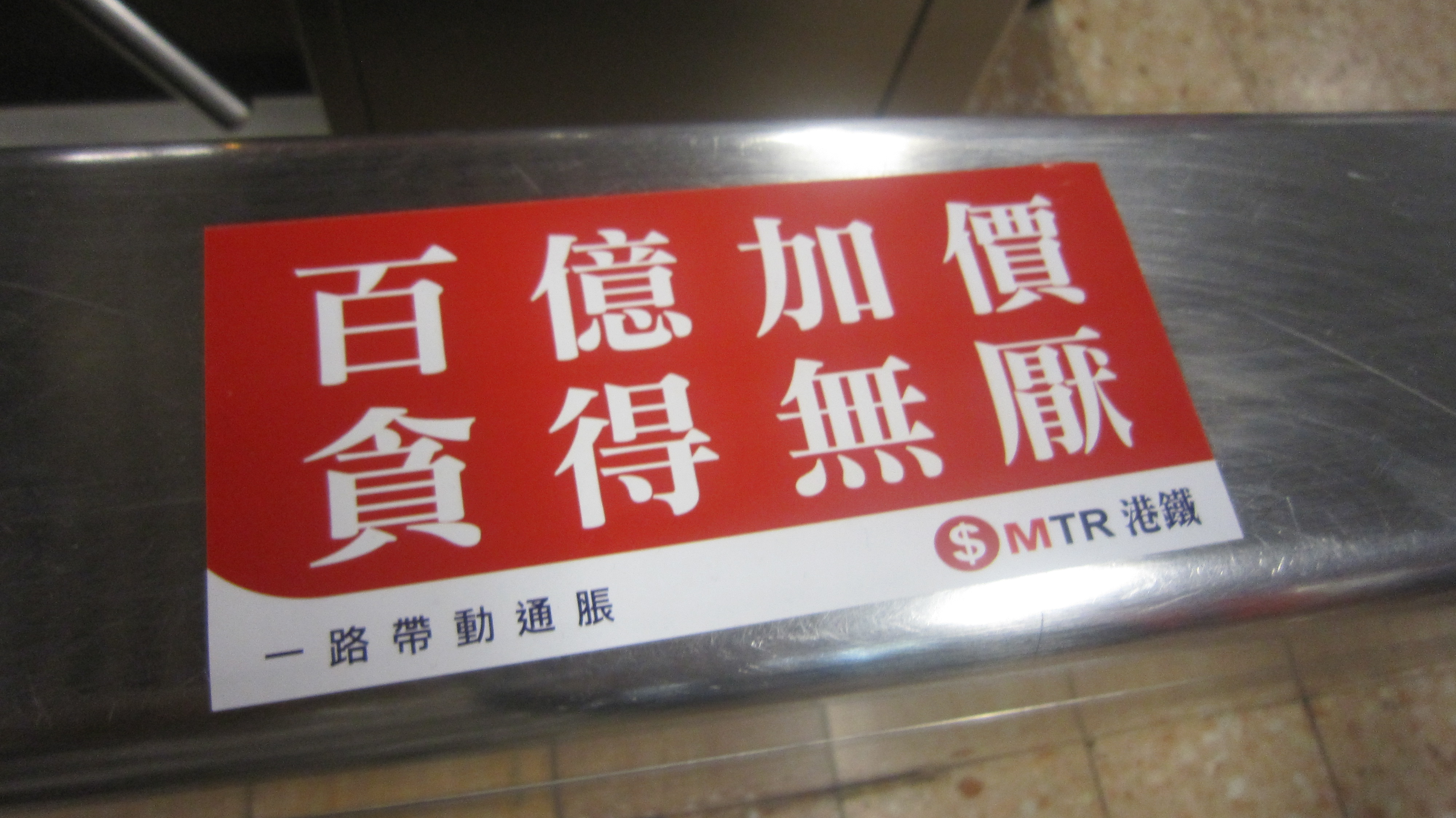 anti MTR